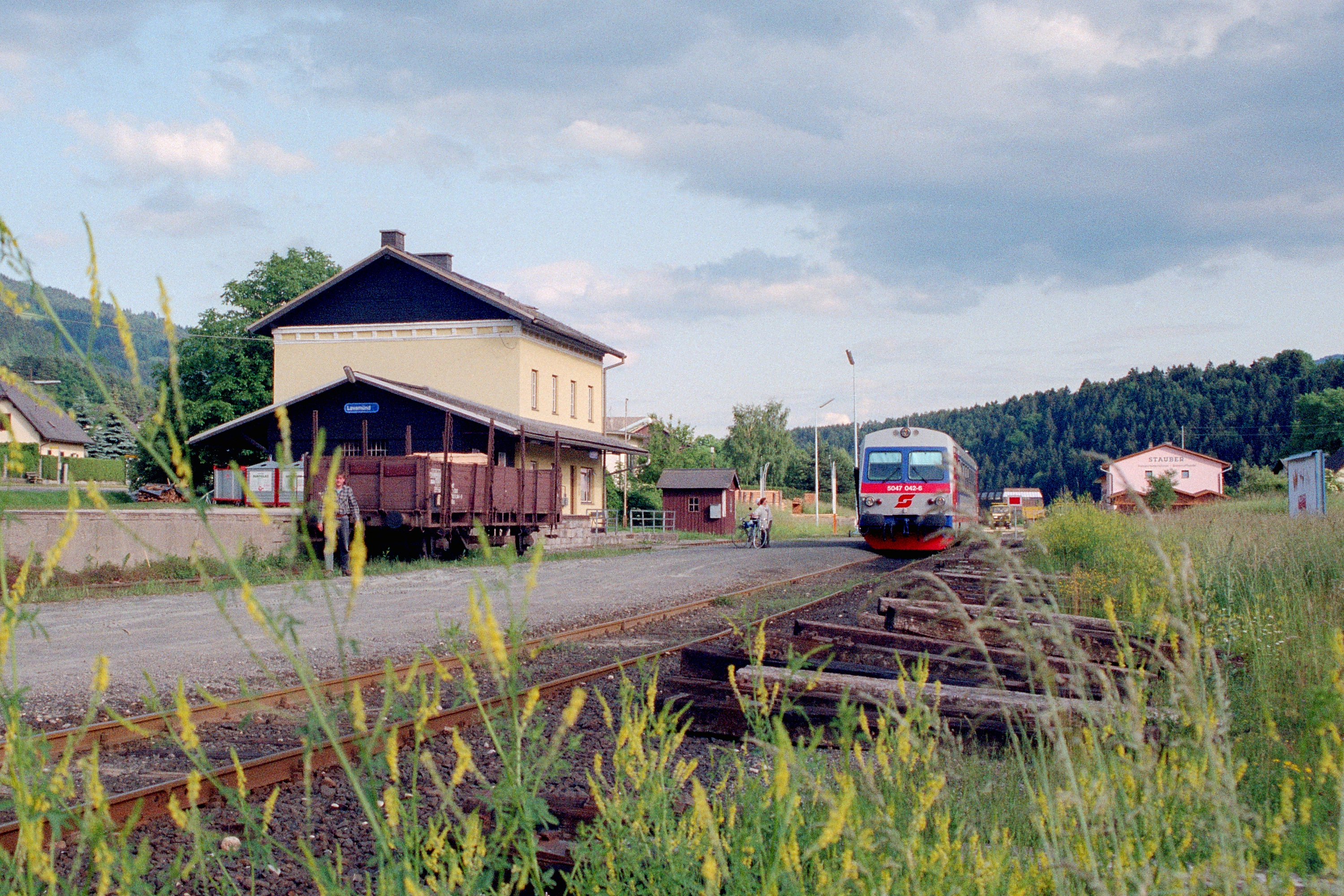 Lavamünd railway station, still operated by the ÖBB in 1992 and a 5047 railcar